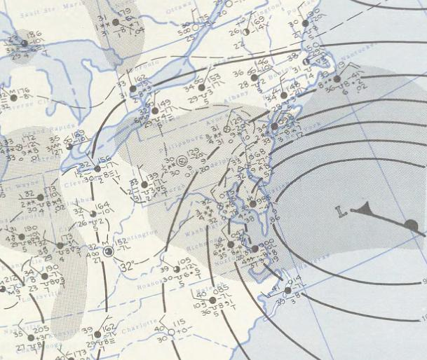 Surface weather analysis of a nor'easter on 20 March 1958.